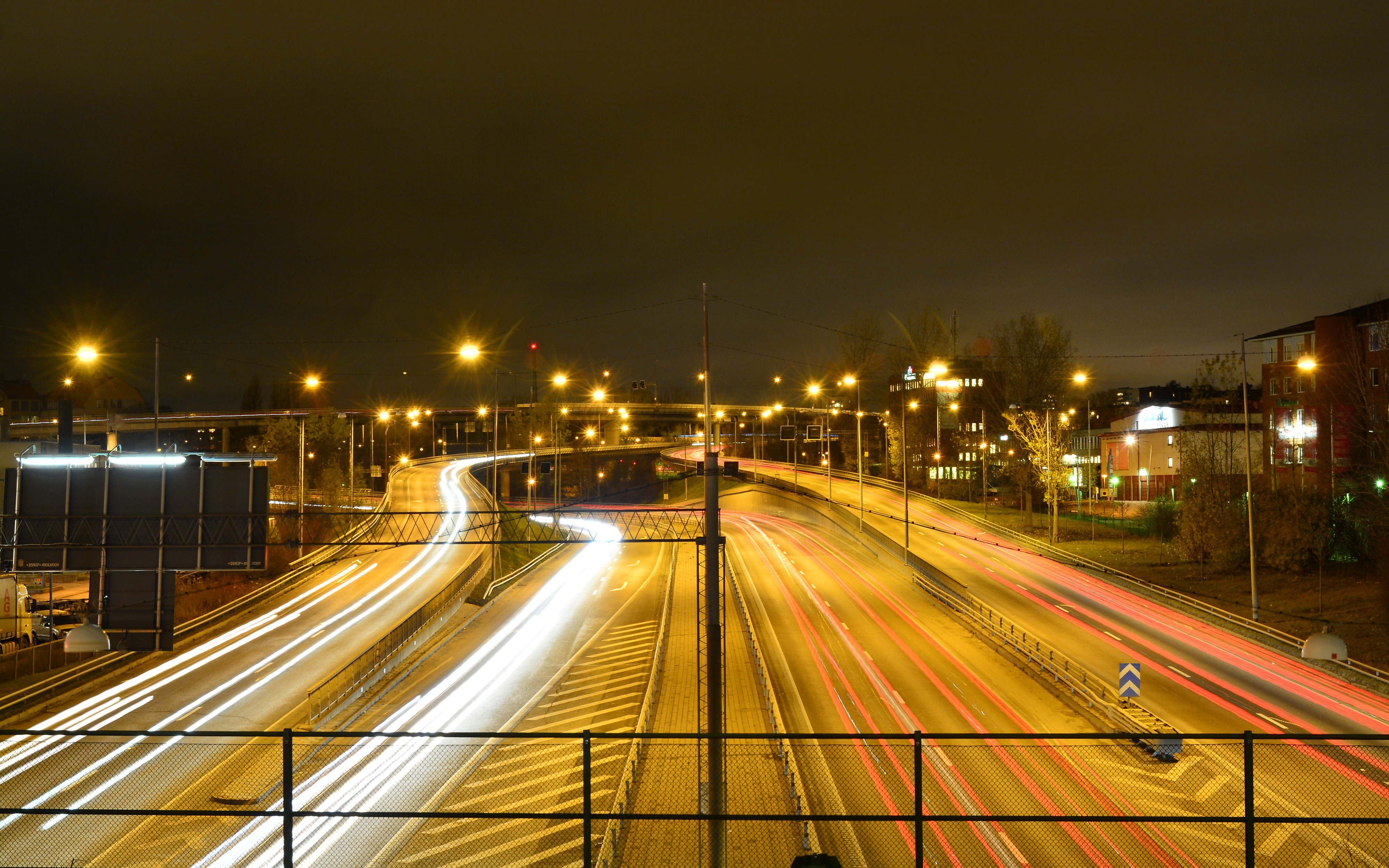 Road interchange connecting Årstalänken with Essingeleden in southern Stockholm, Sweden. Photo taken with a seven blade apperture.